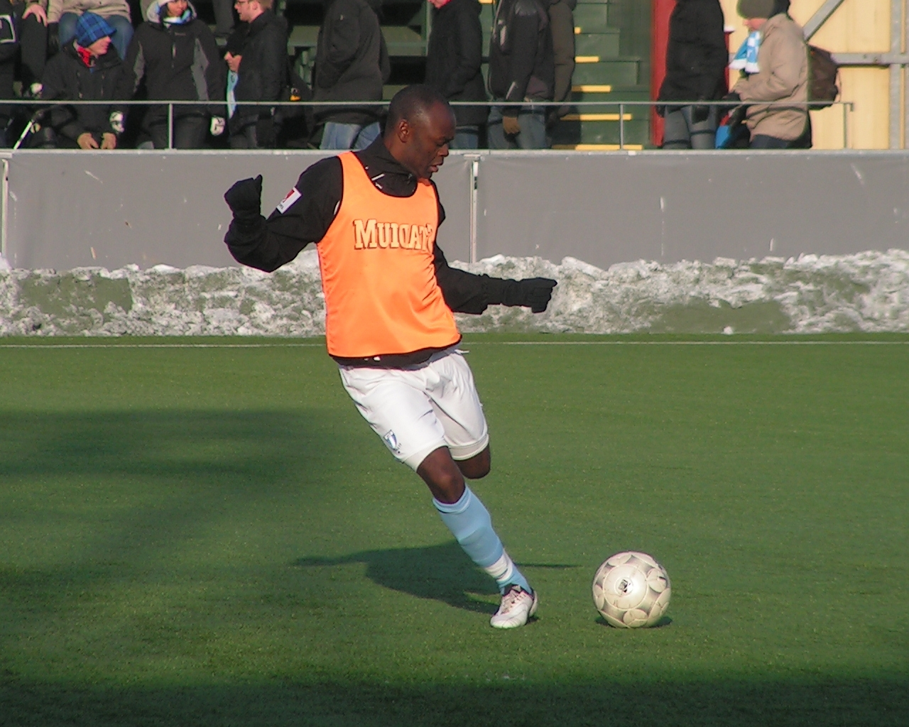 Joseph Elanga warming up for Malmö FF before friendly game vs HB Köge 23 Jan 2010 at Malmö IP in Malmö, Sweden.